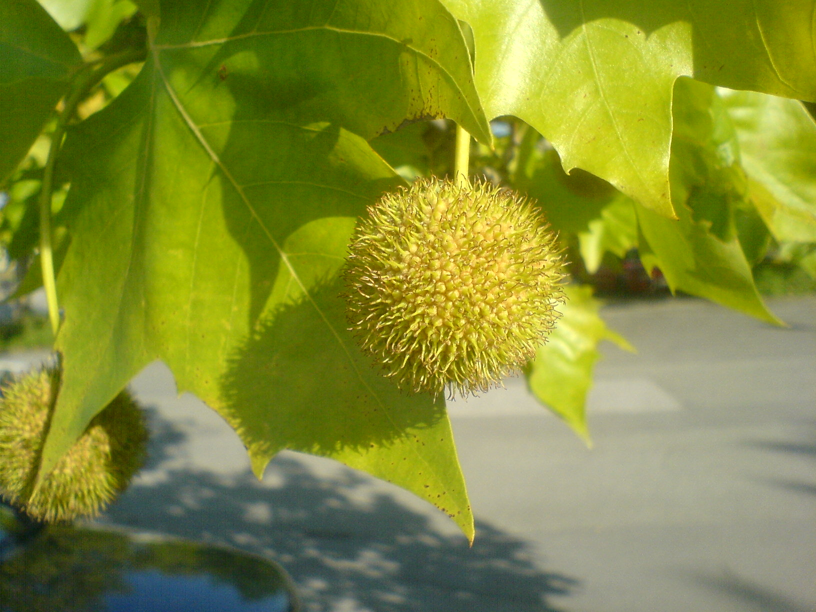 Platanus × hispanica